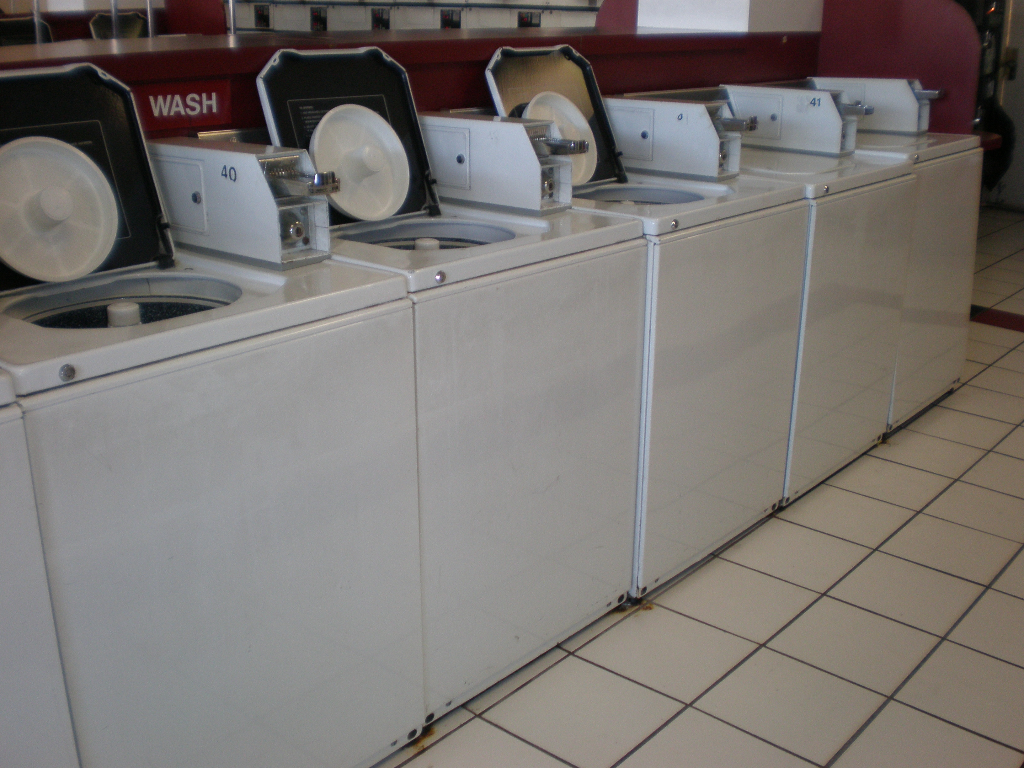 Coin-operated GE 2 Speed Commercial Washers found in a laundromat in Daly City, California.